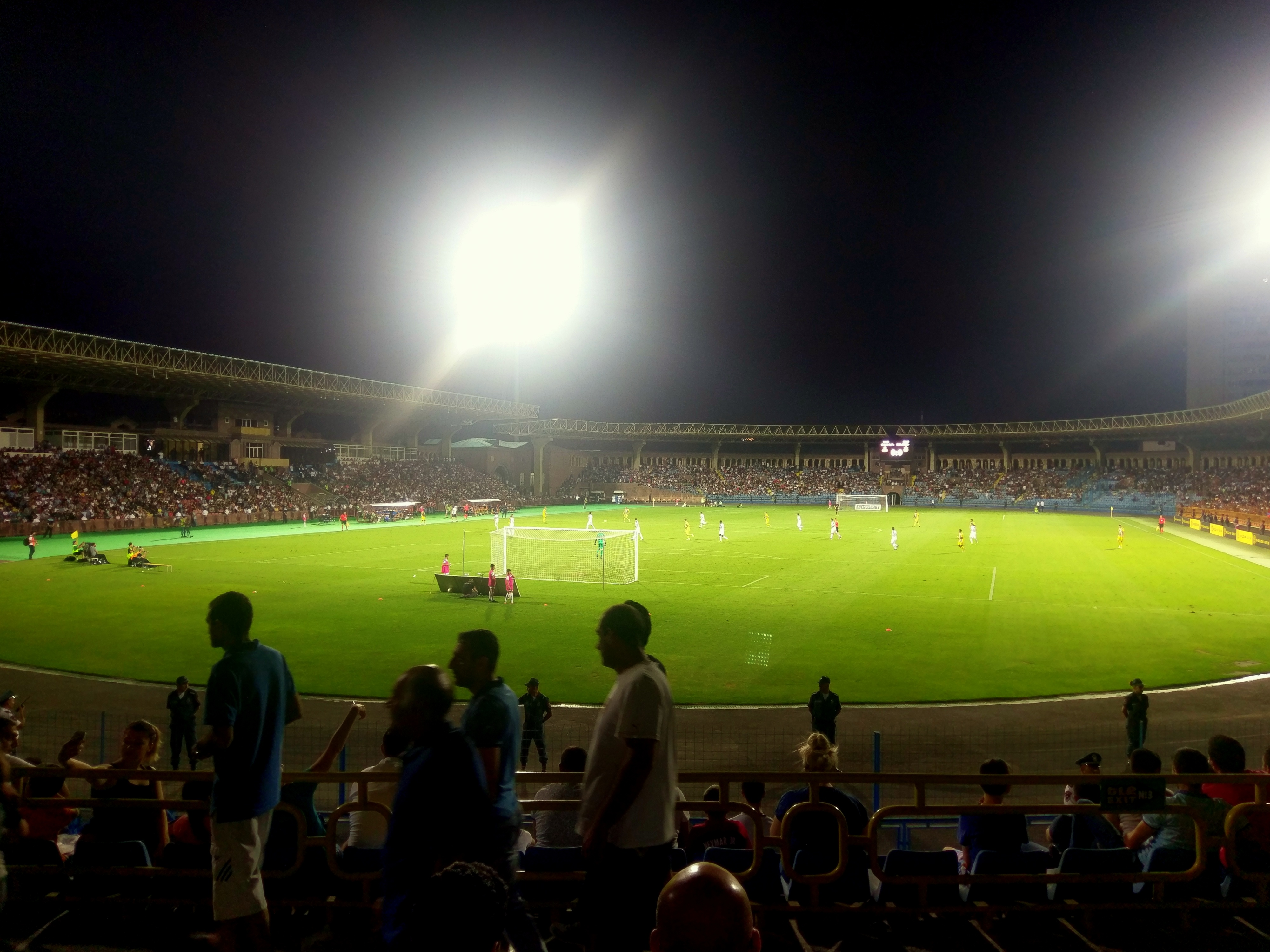 Pyunik vs Maccabi Tel Aviv